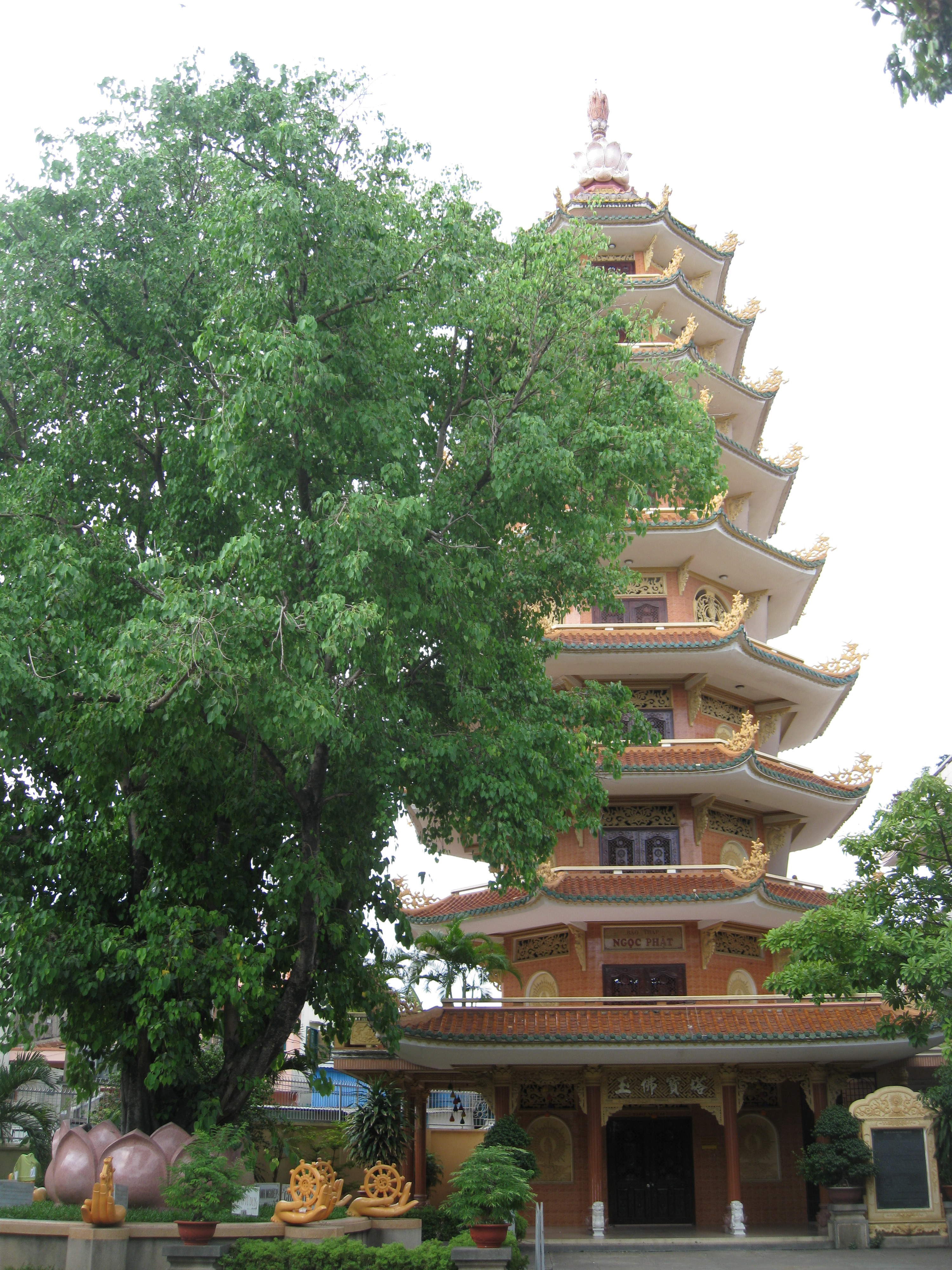 Buddha Gem Tower inside Tinh Xa Trung Tam's precinct, standing next to a Ficus religiosa tree.